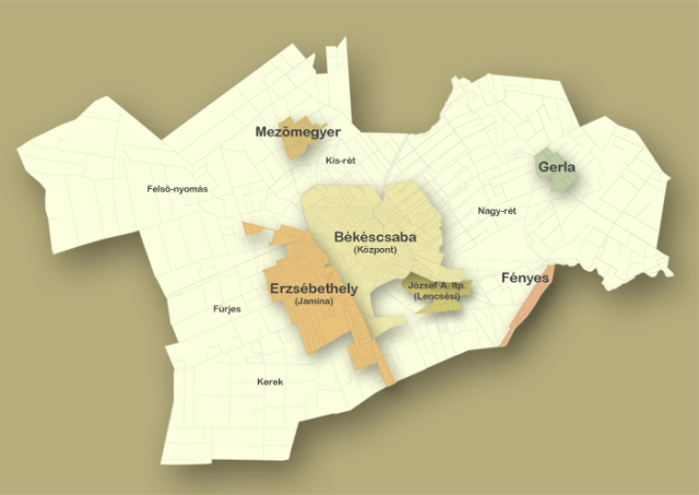 Parts of Békéscsaba